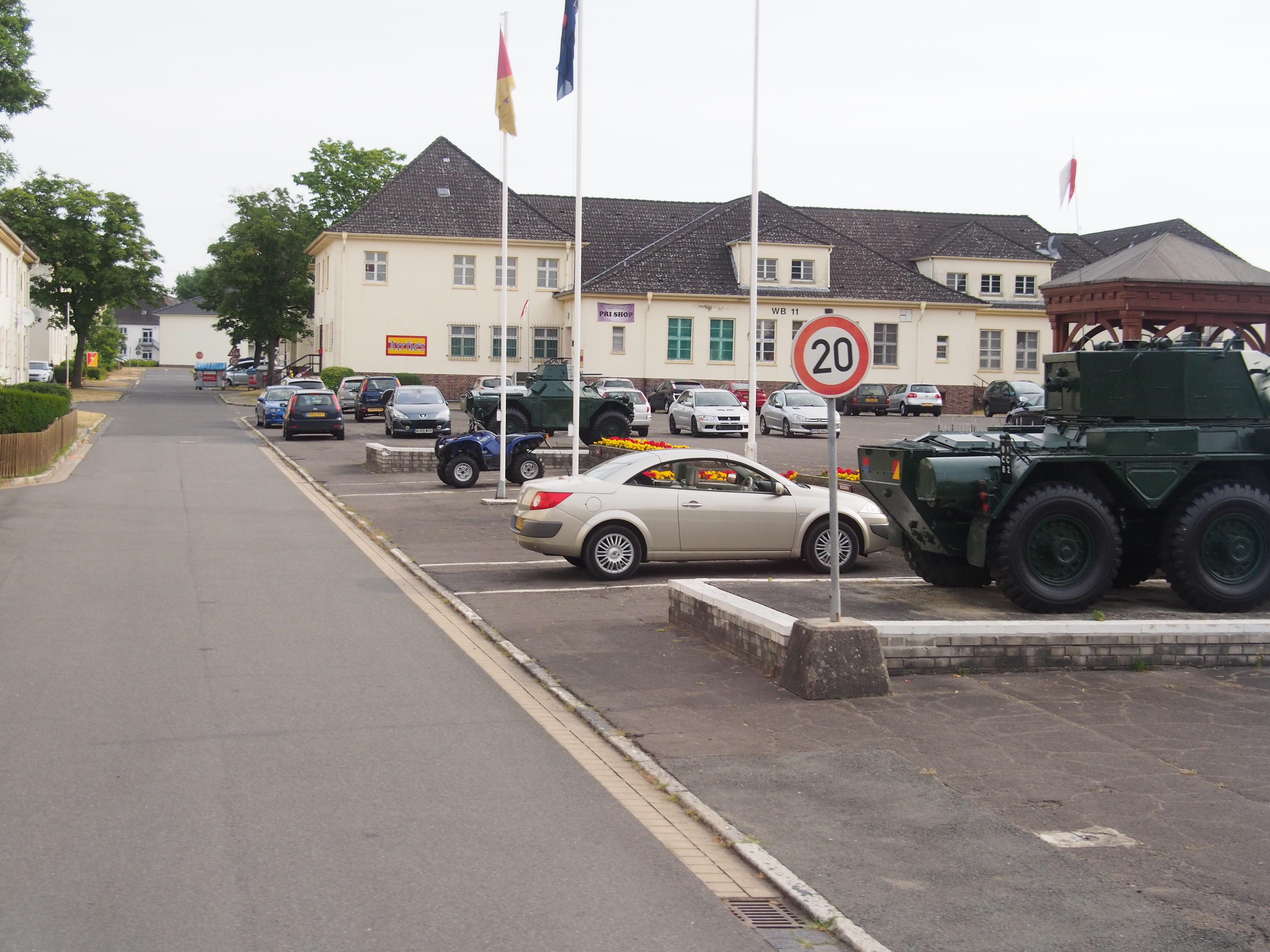 Barracks (WB 11) at Hohne Garrison, until end of 2015 Headquarters of the 7th Armoured Brigade (United Kingdom).